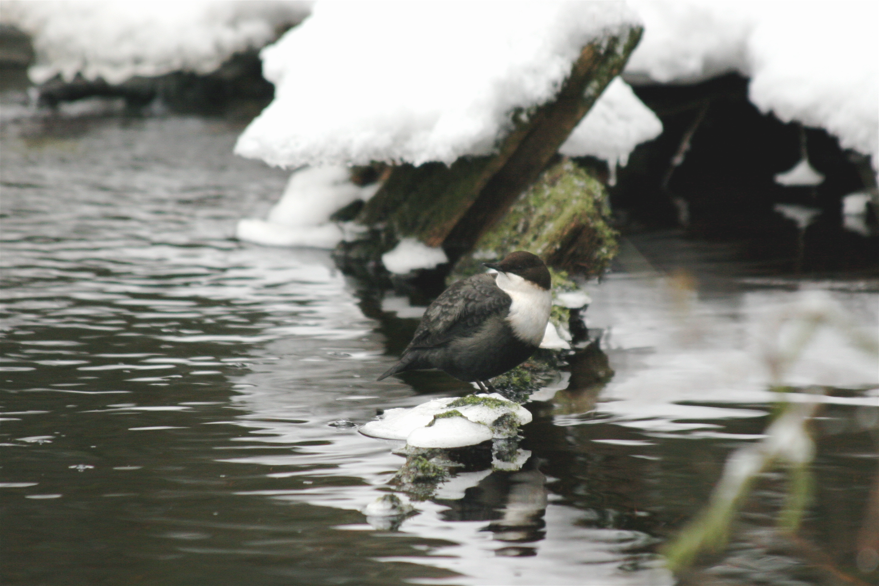 Mid-Winter day at Nuuksio National Park in Espoo, Finland